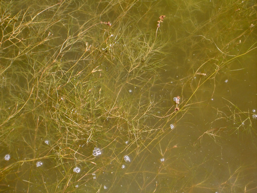 eigen foto The accepted name for Potamogeton pectinatus L., Sp. Pl.: 127 (1753) is Stuckenia pectinata (L.) Börner, Fl. Deut. Volk.: 713 (1912).